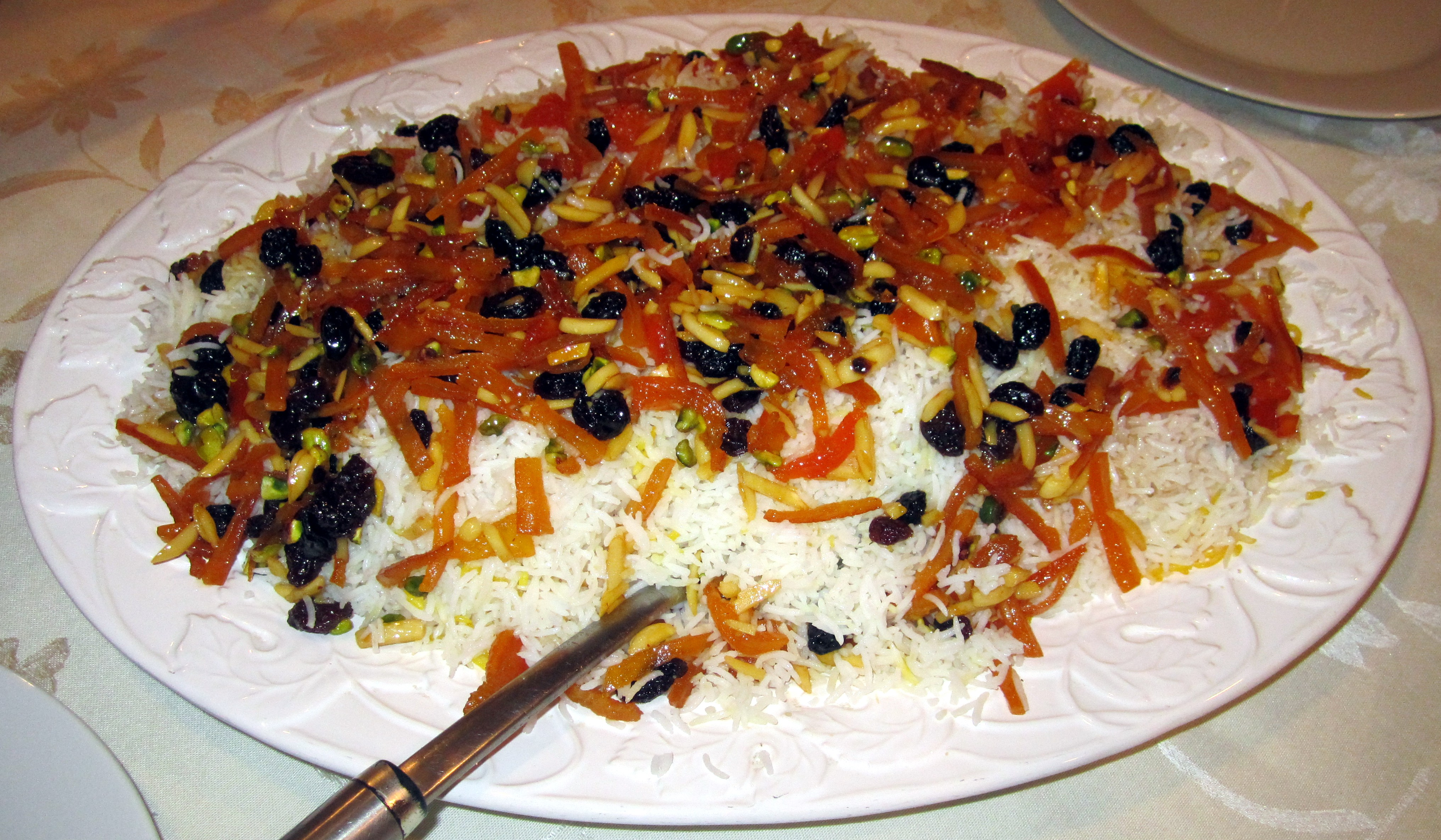 Sweet pilaf or shirin polo